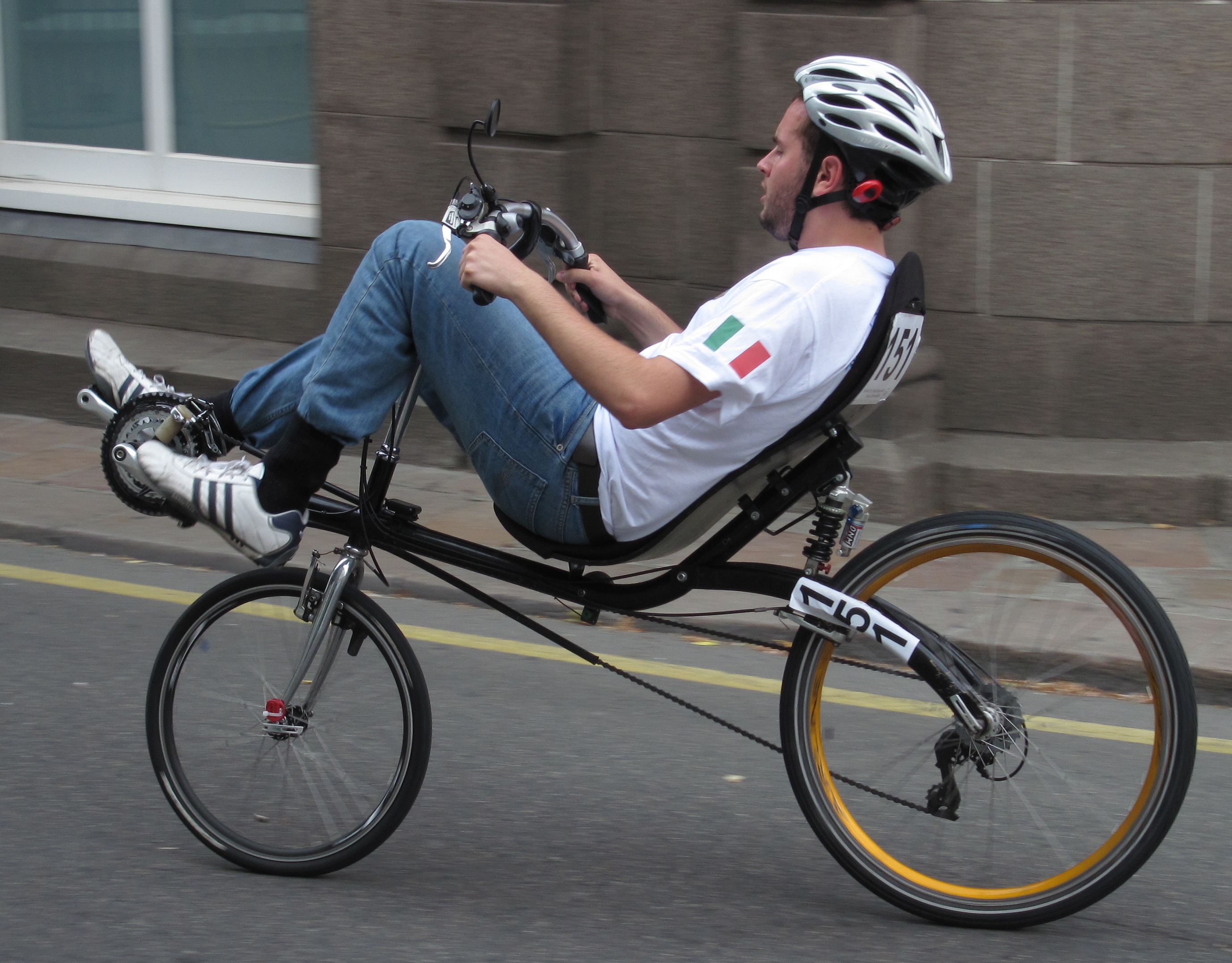 Jersey Town Criterium recumbent bicycle races, Saint Helier, Jersey - World Human Powered Vehicle Association 2010 World Championship